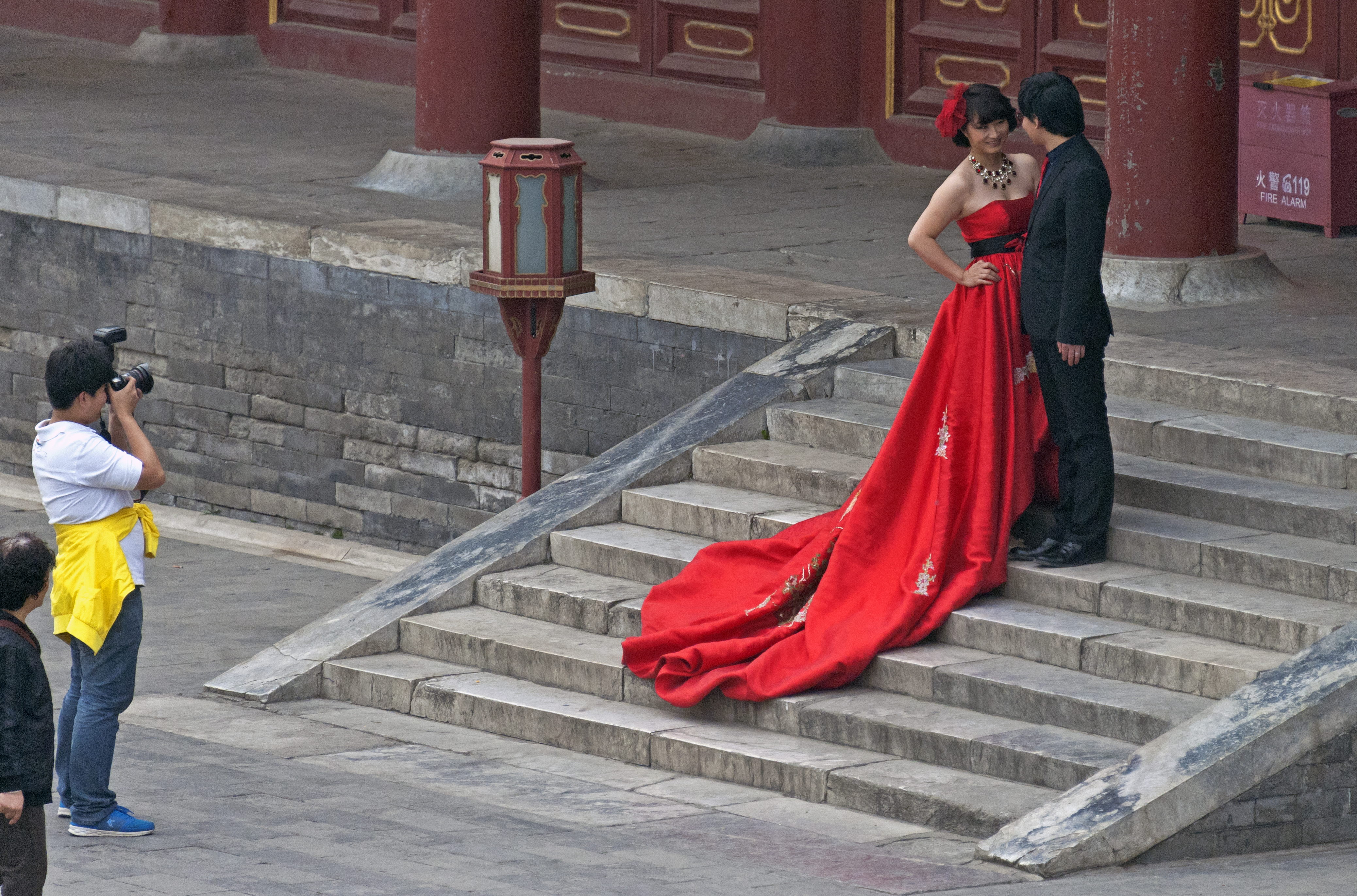 A Chinese couple gets some of their wedding photographs taken at the Temple of Heaven in Beijing.